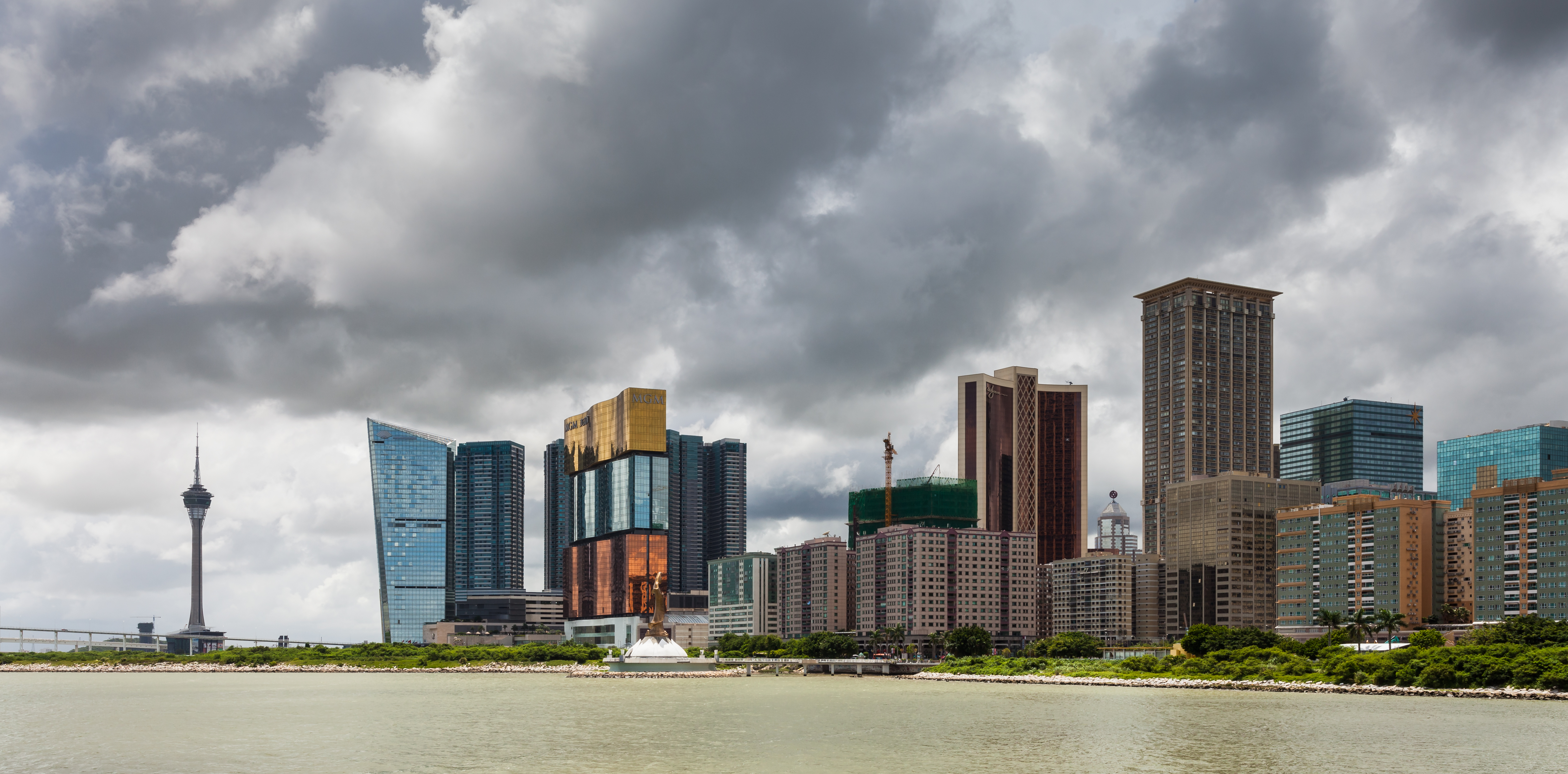 View of the casinos from Science Center, Macau